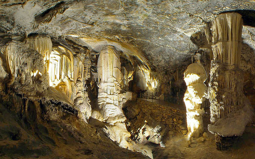 photo: Boštjan Burger, (photography with the permission of the Postojna Cave administration board, November 2005). Panorama picture displays the stalagmite named 'Brilliant' which is the symbol of the cave.